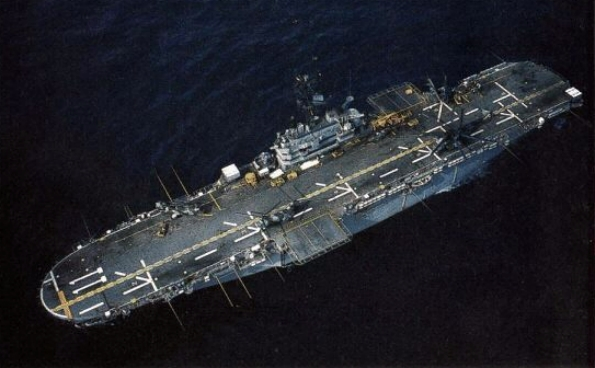 Deck view of the U.S. Navy helicopter carrier USS New Orleans (LPH-11).